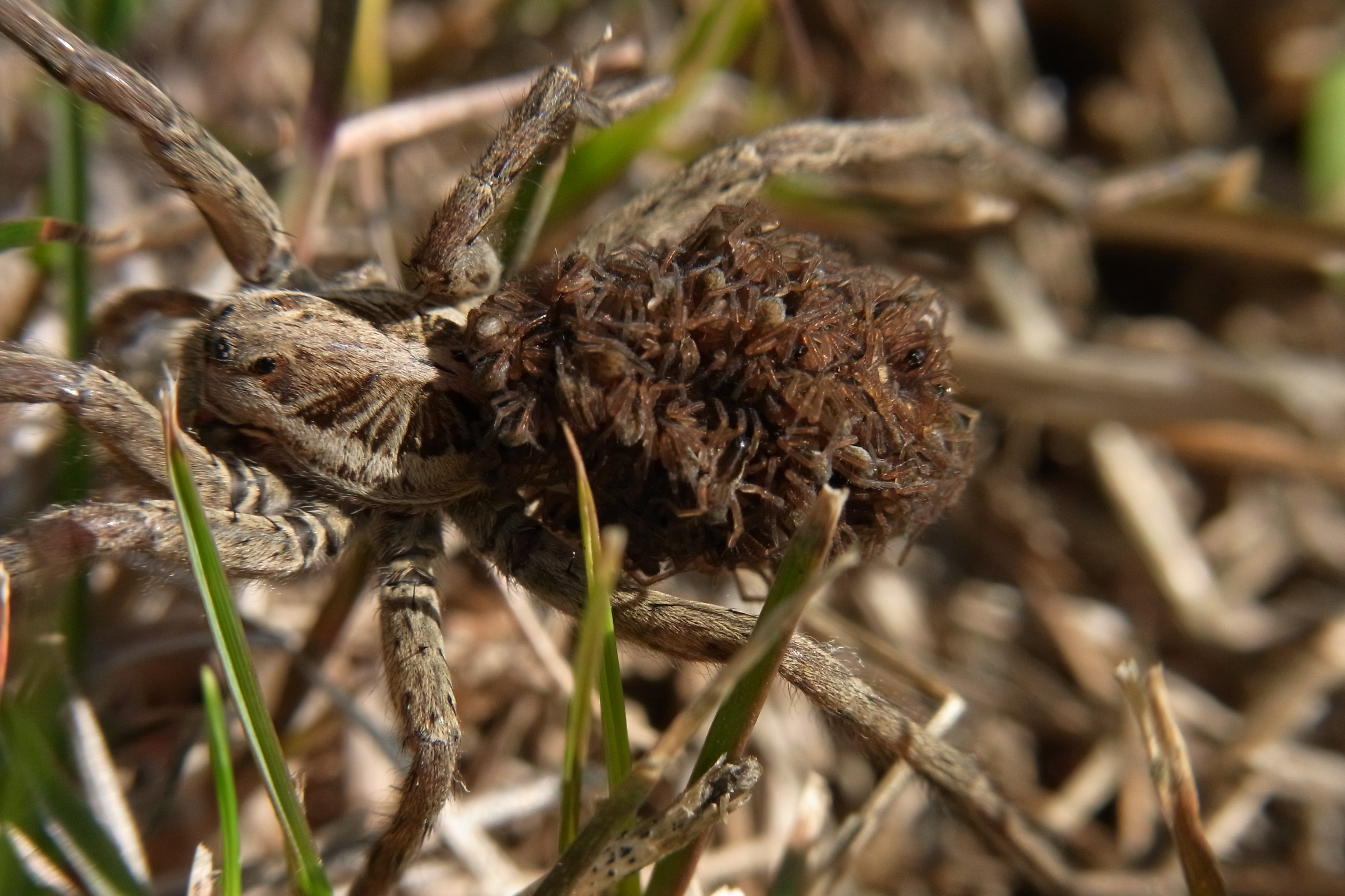 Wolf spider with spiderlings in garden, Mecsek Hu, (cf. Hogna spec.)